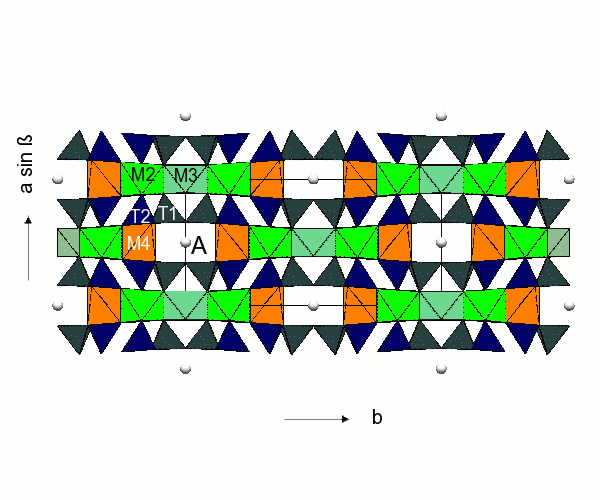 Amphibole structure: Linking of I-beams author: W. Bubenik